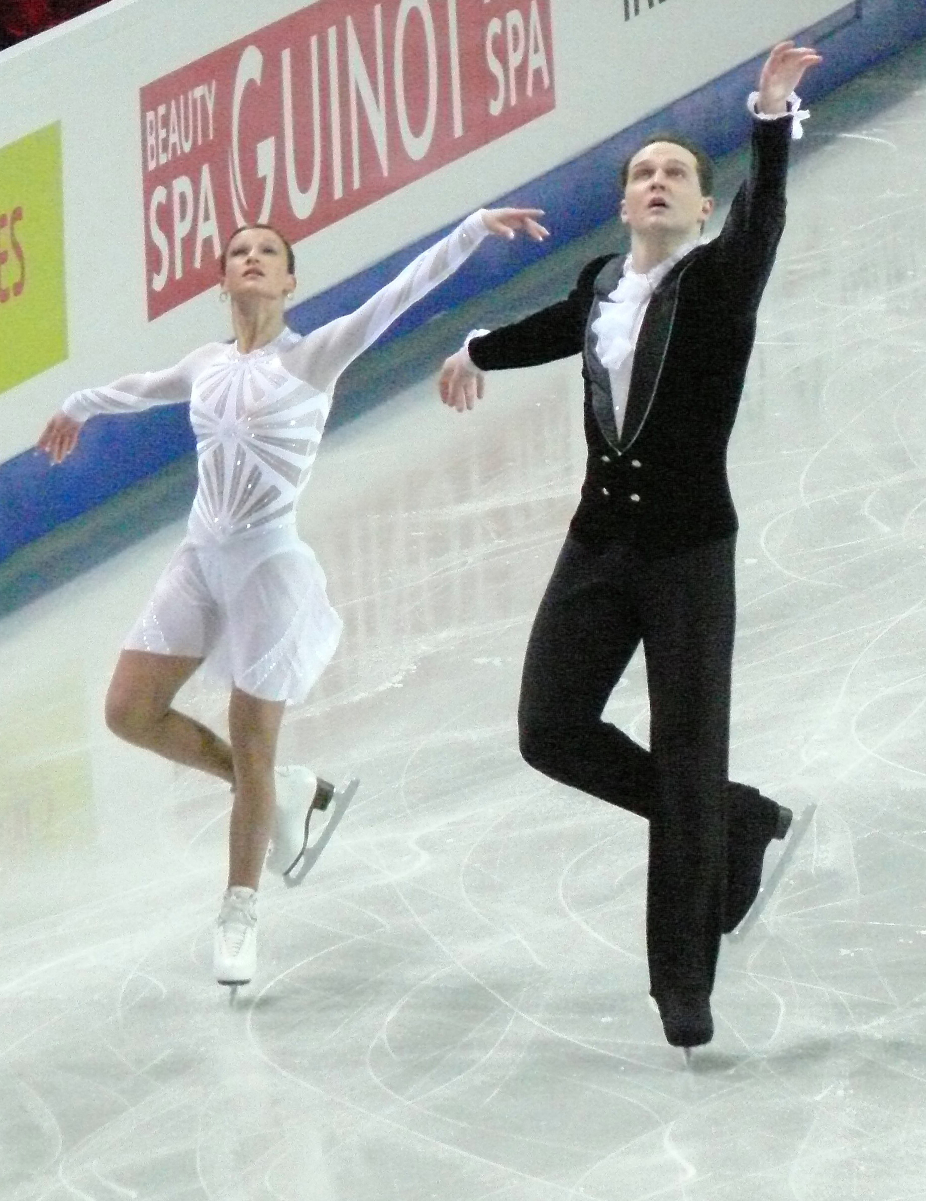 Tatiana Volosozhar and Stanislav Morozov (UKR) at the free program of the European Championships 2007 in Warsaw